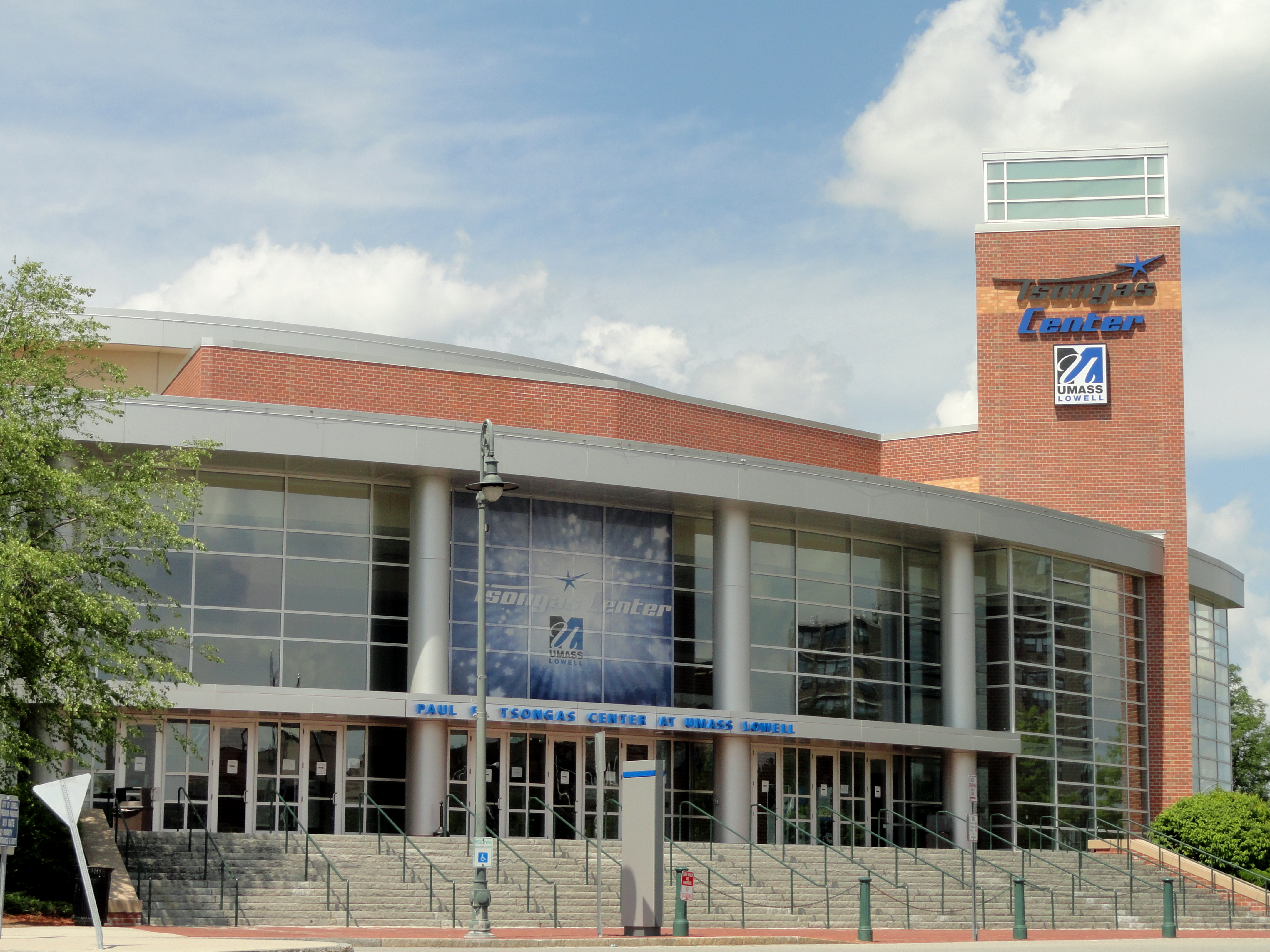 View of University of Massachusetts Lowell, Lowell, Massachusetts, USA.